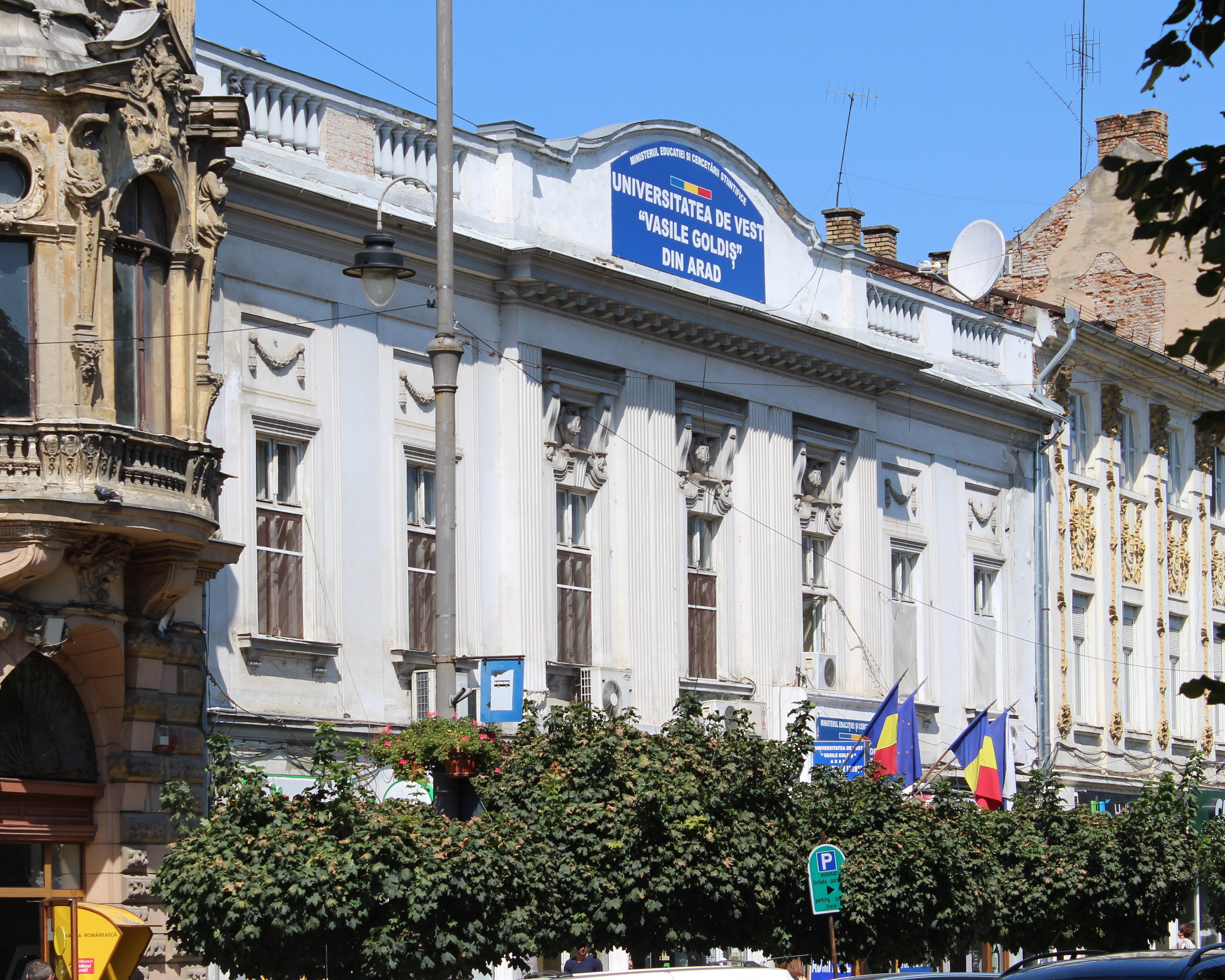 The headquarters of the West University "Vasile Goldiş", Arad, Romania, built late of 19th century